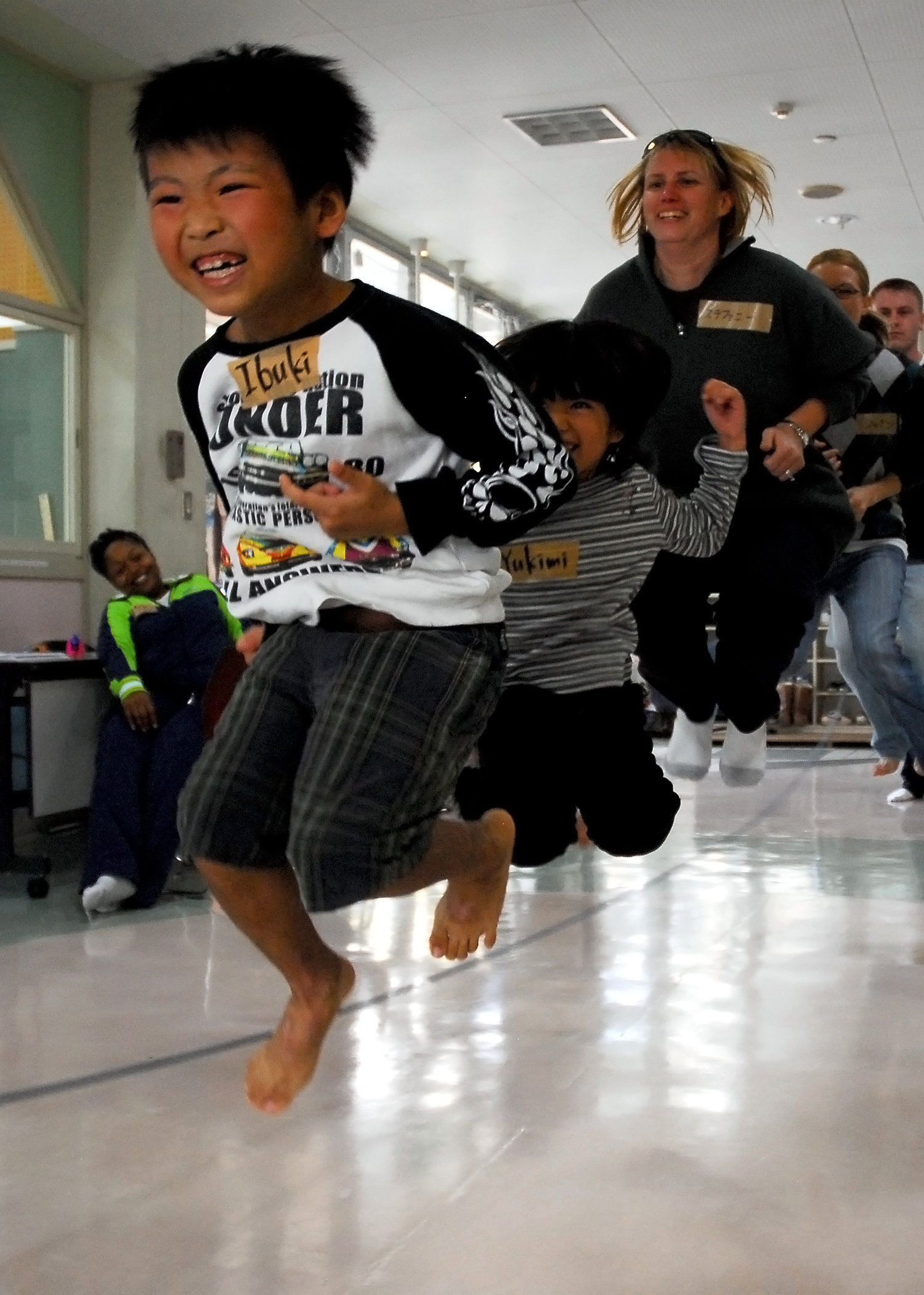 100220-N-6855K-045 OKINAWA, Japan (Feb. 20, 2010) Children from the Kadena Children's Center jump rope with Intelligence Specialist 1st Class Stephanie Delano, left, Aviation Ordnanceman 2nd Class Shannon Lanza and Aviation Maintenance Administrationman 1st Class James Kerr during a community relations project. Sailors from Patrol Squadron (VP) 47 also taught traditional English songs to the local Japanese children attending after-school care at the center.